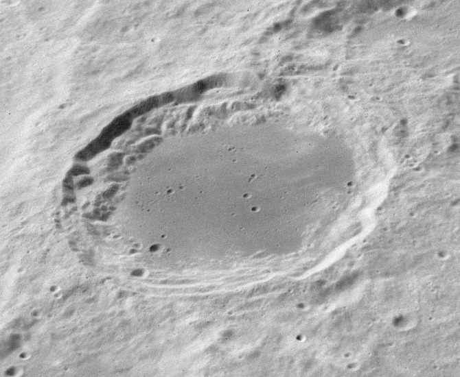 Oblique view of Lomonosov, on the far side of the moon. North is in upper right.